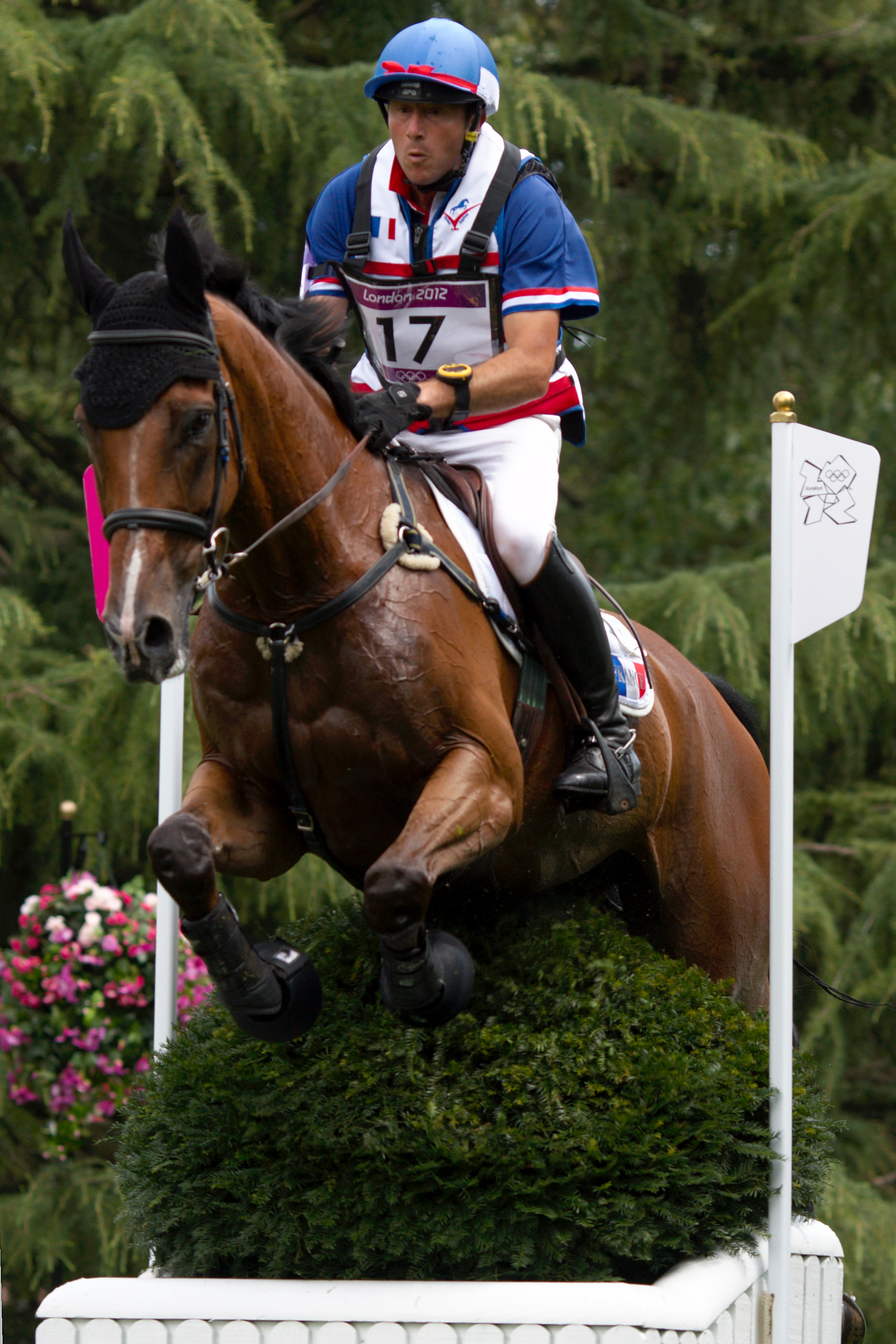 Aurelien Kahn and Cadiz, competing for FRA, at fence 22, during the cross-country phase of the Eventing during the 2012 Olympic Games in Greenwich Park, London.